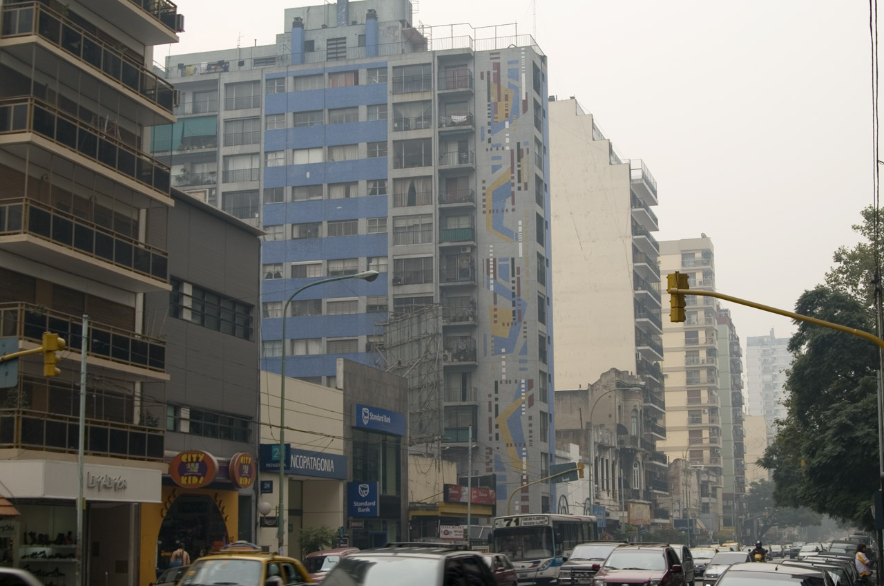 5300 block of Corrientes Avenue, in the Villa Crespo ward of Buenos Aires.